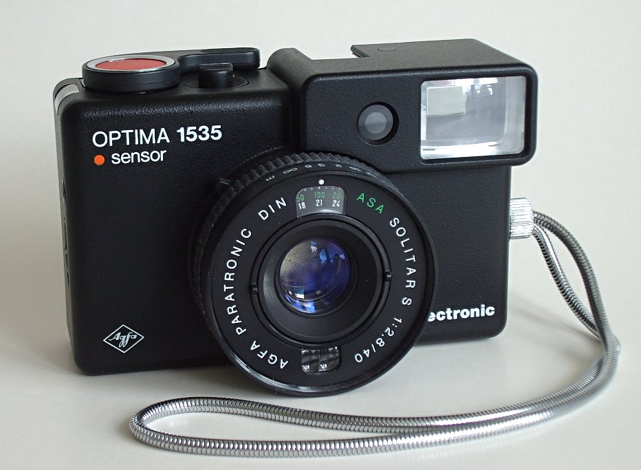 Agfa Optima 1535 compact camera. Automatic exposure control. Manual focus with rangefinder in viewfinder. For 135 film cartridges.